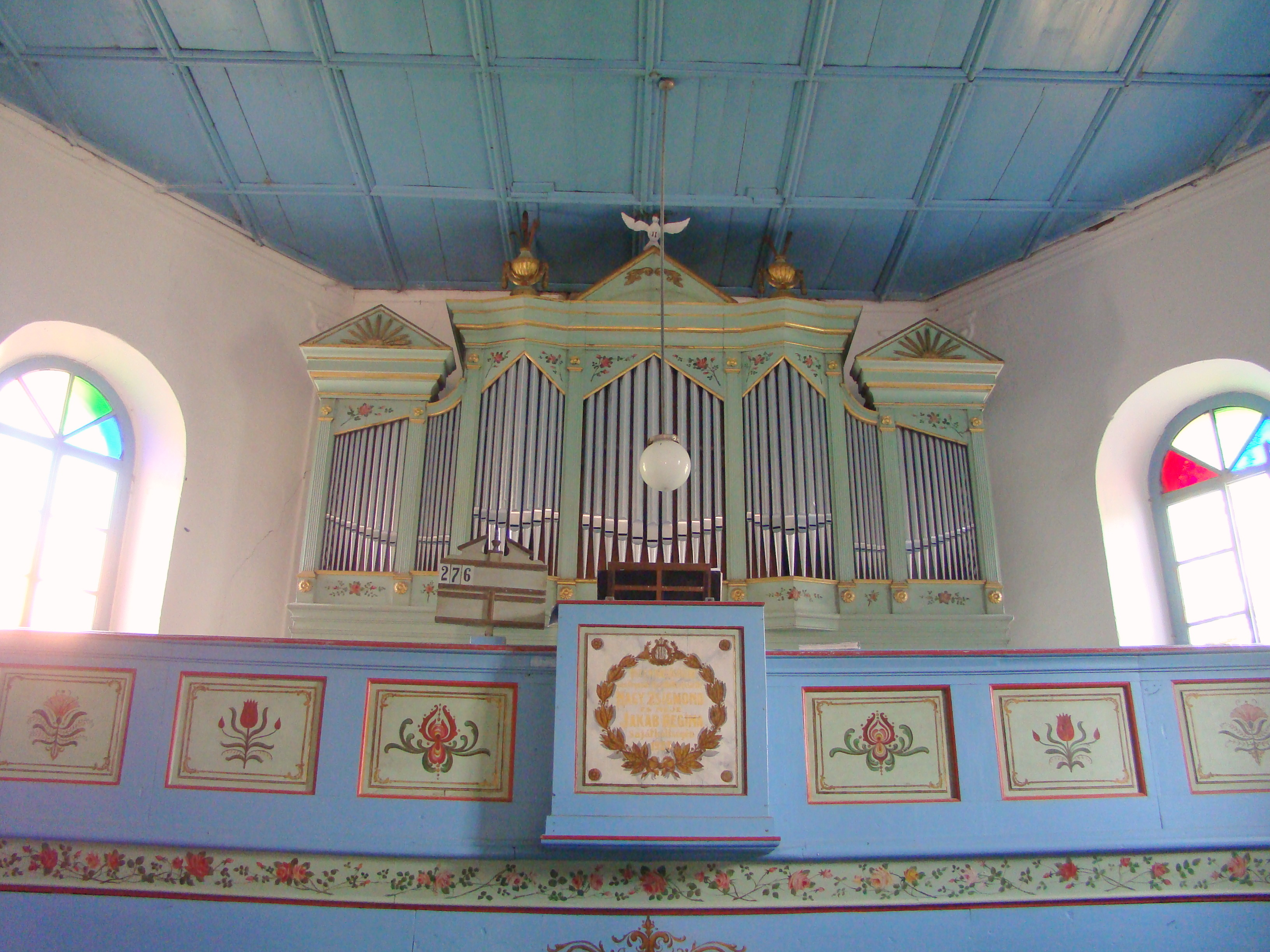 Reformed church in Ulieș, Harghita County, Romania